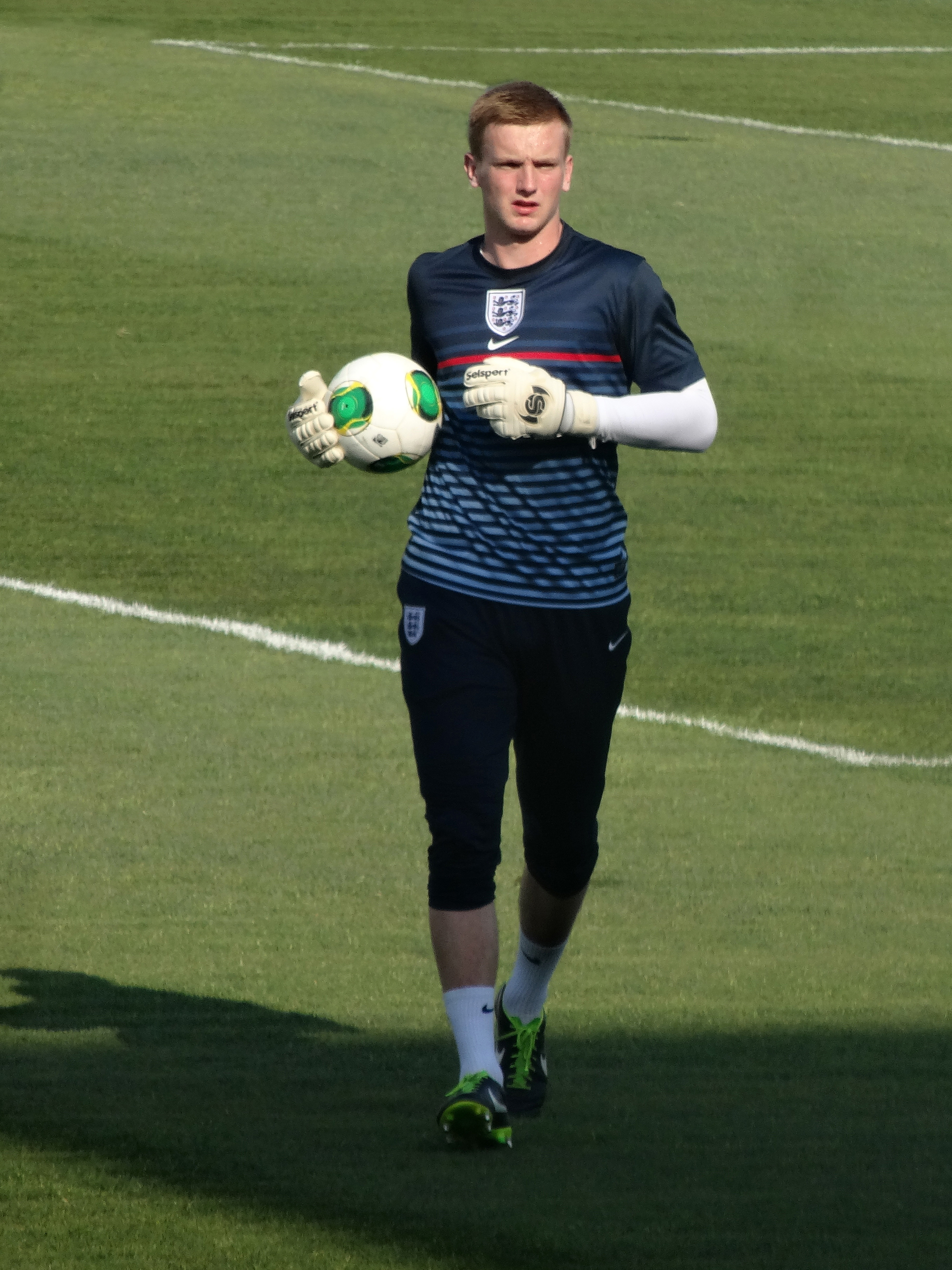 George Long England Under 20s World Cup Turkey 2013